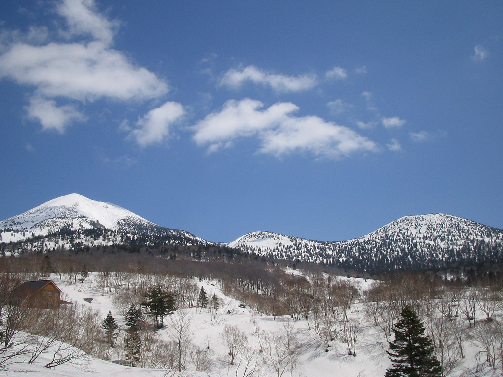 Hakkōda Mountains's Odake (left) and Iodake (right) peaks, in Aomori, Japan.